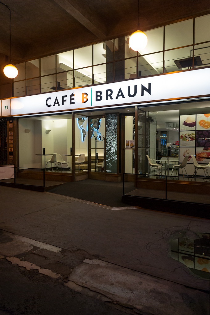 Café B. Braun, in the building "Medical House" at the intersection of Sokolská and Ječná streets, Prague